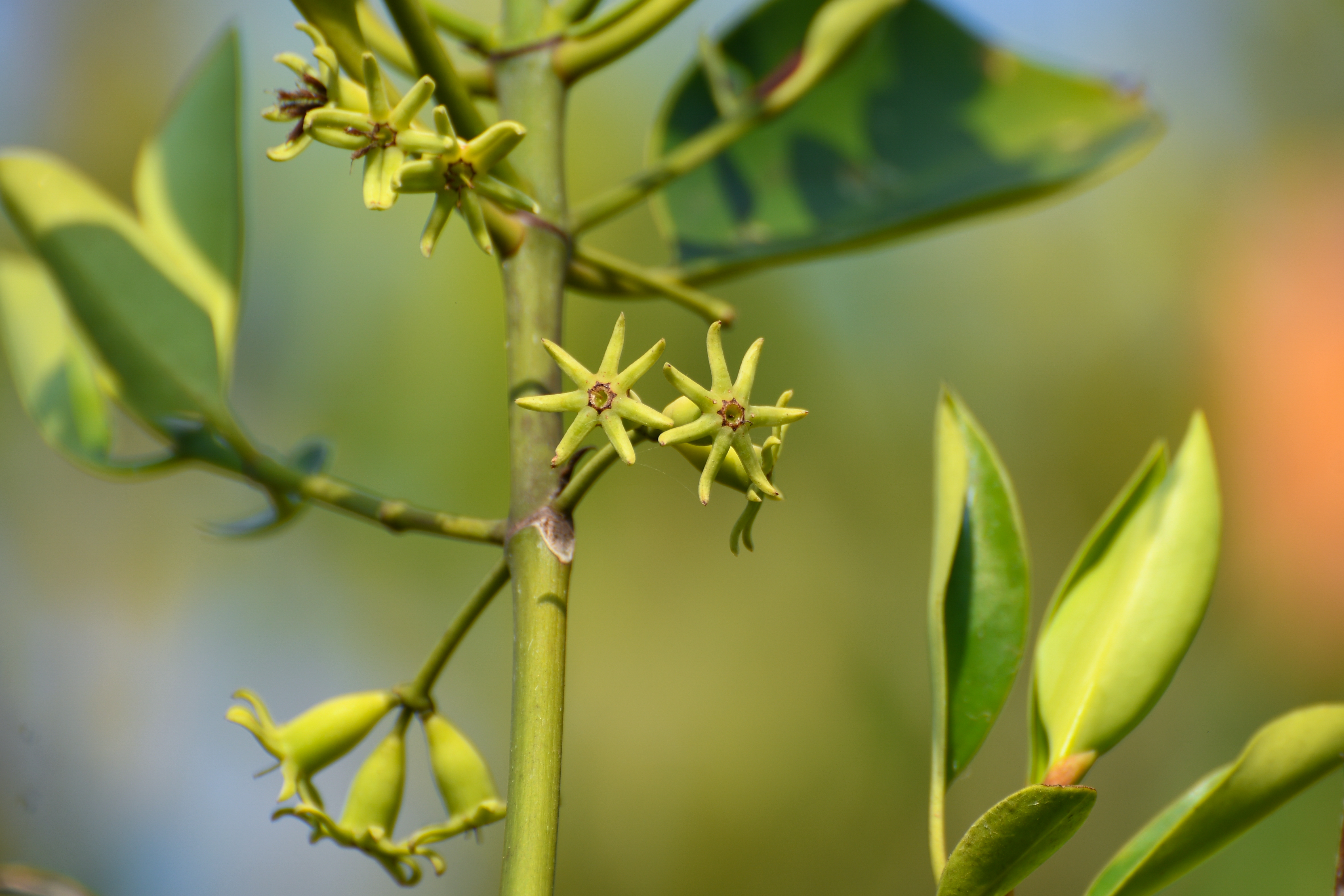 Mangroves